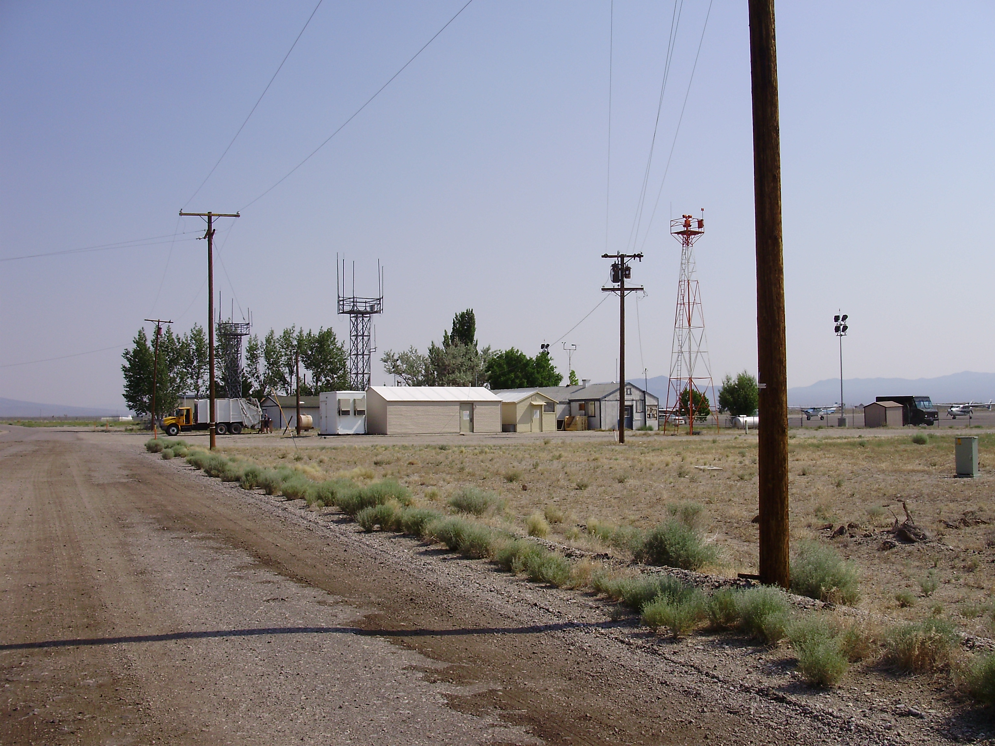 Tonopah FAA building with backup weather observing equipment